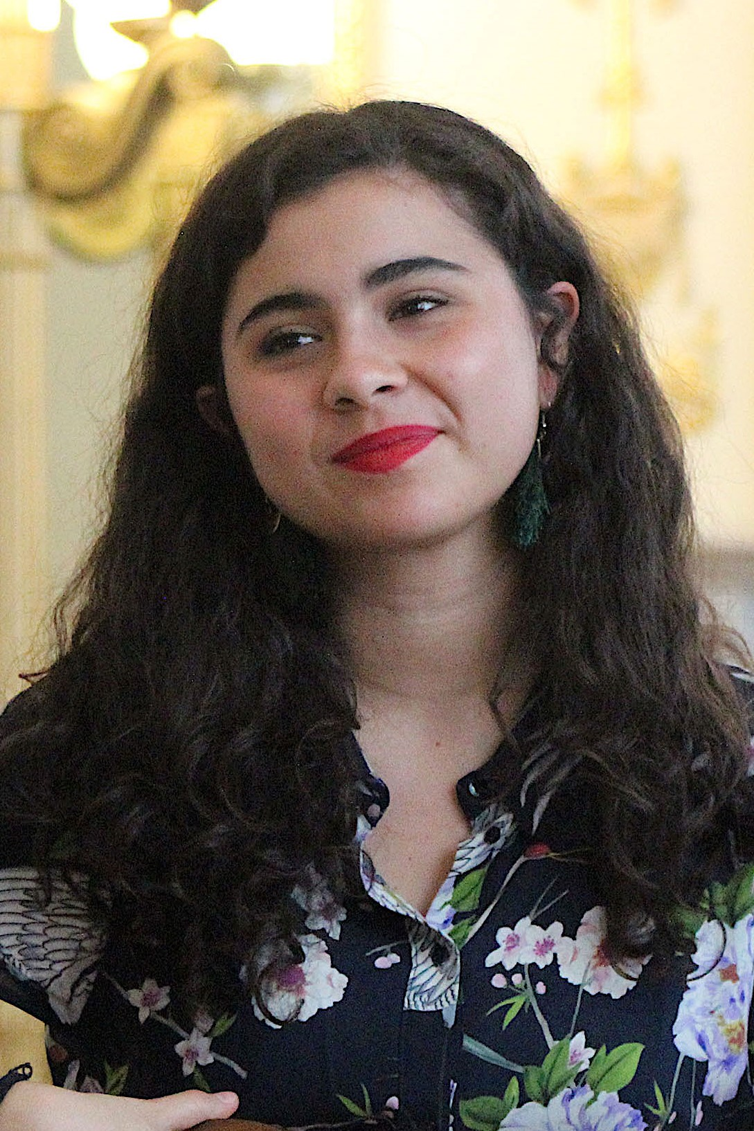 Jueves 02 de Mayo de 2019Silvana Estrada ante la presentación más importante de su carreraUna de las cantantes más elogiadas de su generación presentará un adelanto de su primer álbum.El concierto se llevará a cabo el sábado 18 de mayo, en el Teatro de la Ciudad Esperanza Iris.FotografÍa: Martin Elias/ SecretarÍa de Cultura de la Ciudad de México